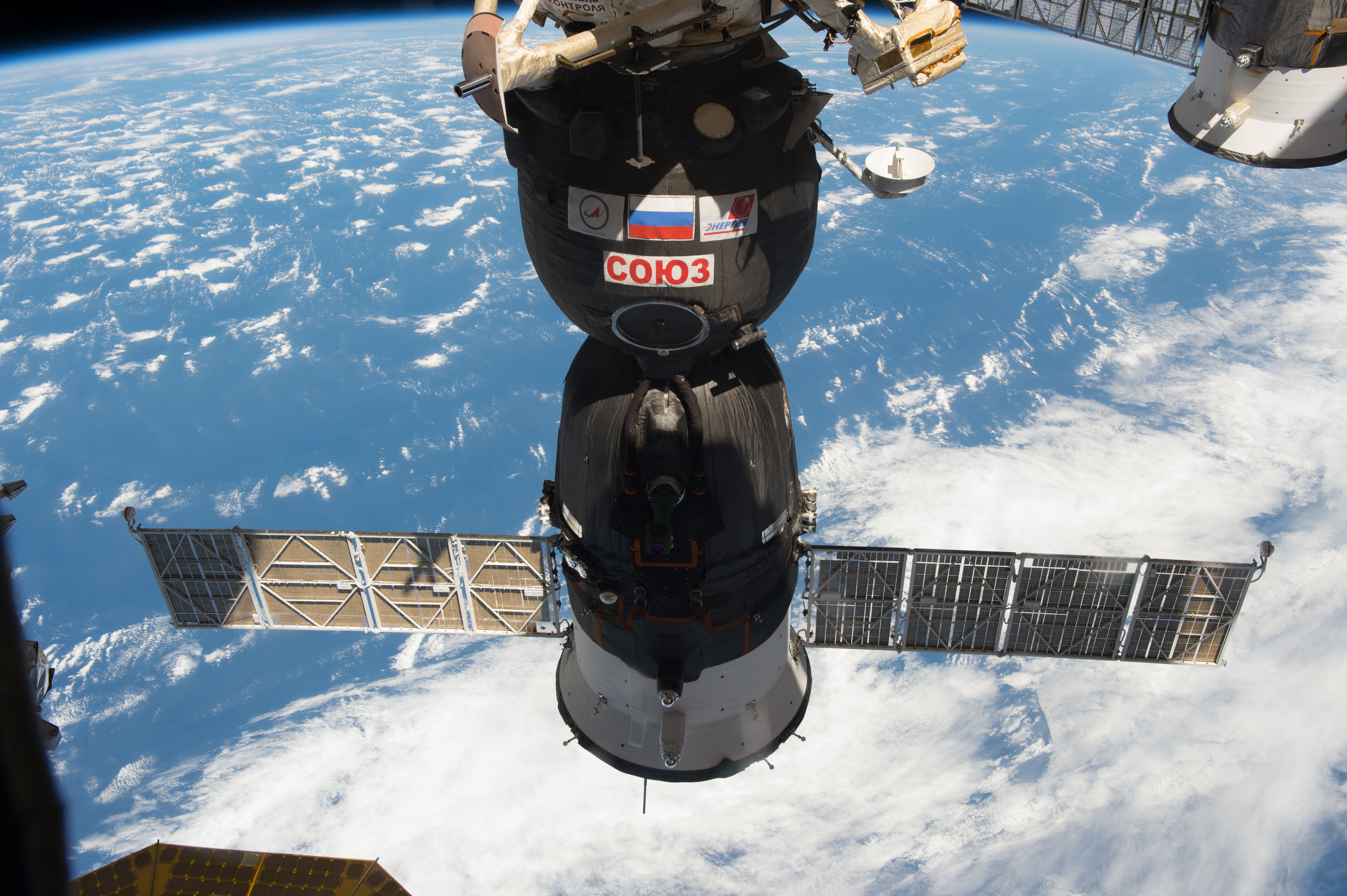 Soyuz MS-03 docked to ISS's Rassvet nadir port.